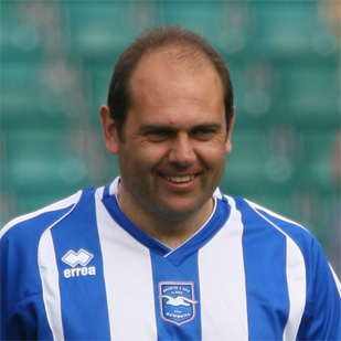 Dean Wilkins - manager of Brighton & Hove Albion - during a charity match at Withdean Stadium.